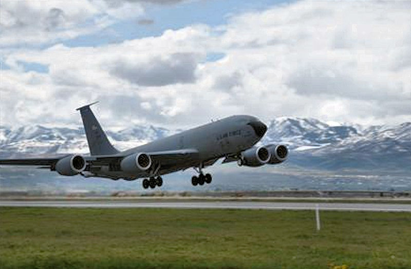 191st Air Refueling Squadron KC-135 landing at Salt Lake City Air National Guard Base, Utah